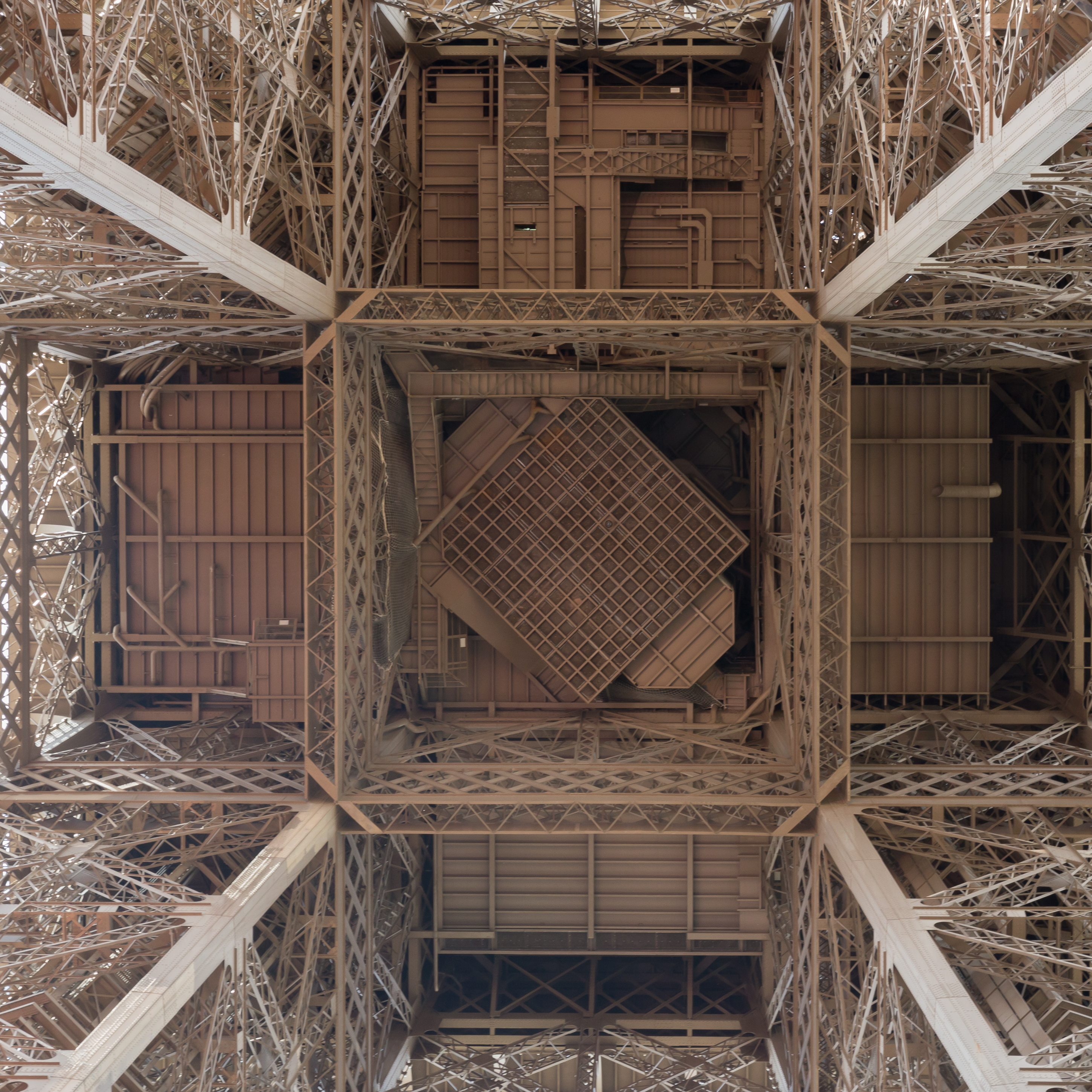 Second floor of the Eiffel tower view from the square in Paris. Template:Deuxième étage de la tour Eiffel vue depuis le parvis à Paris.